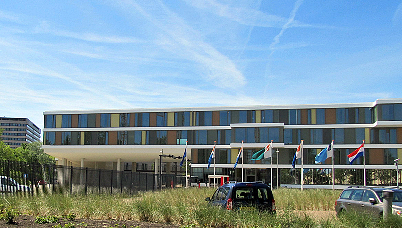 New entrance building for the Frederik kazerne in The Hague